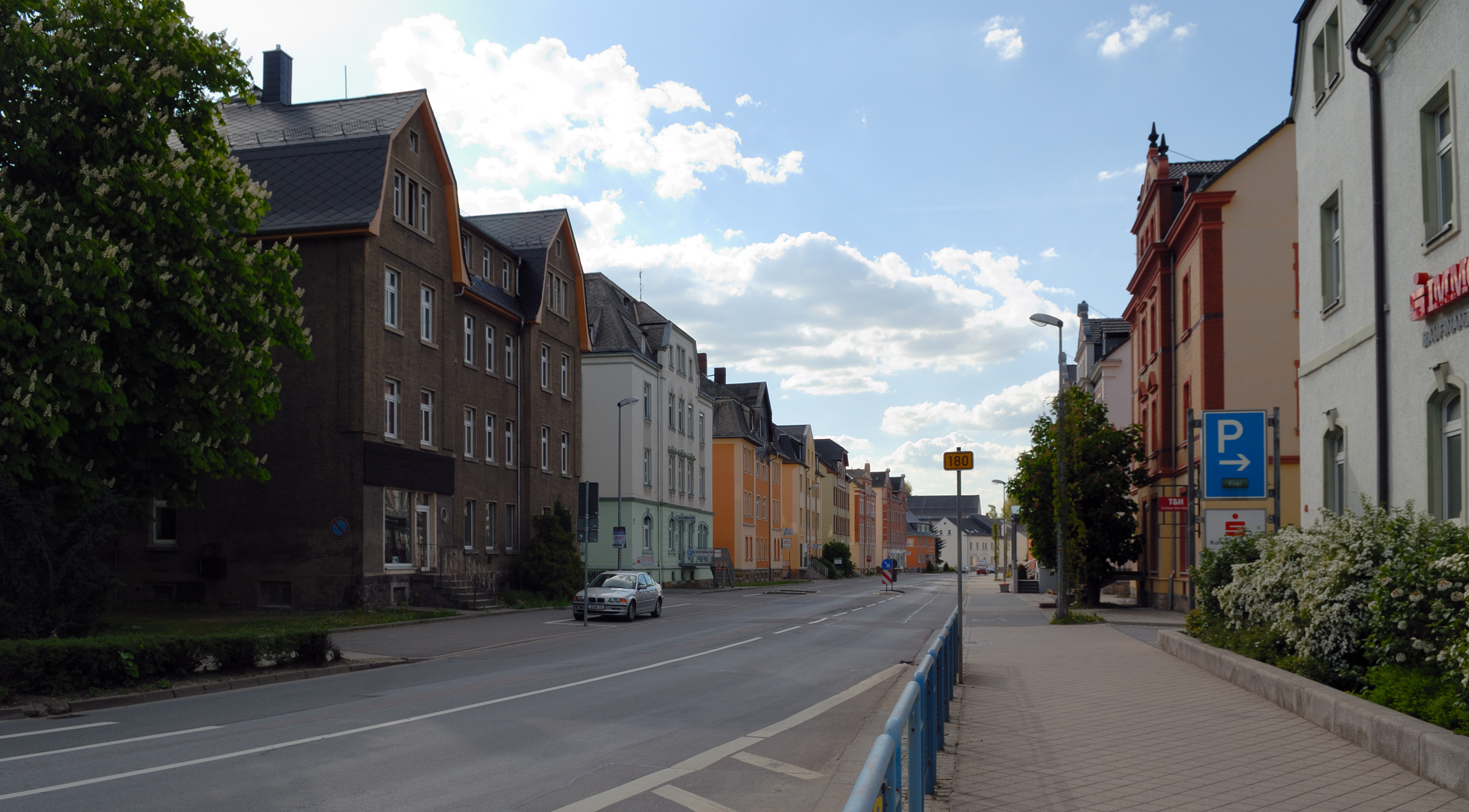 This image shows the Augustusburg street in Flöha, Germany, which is part of the interstate road 180 and the main street of the town.